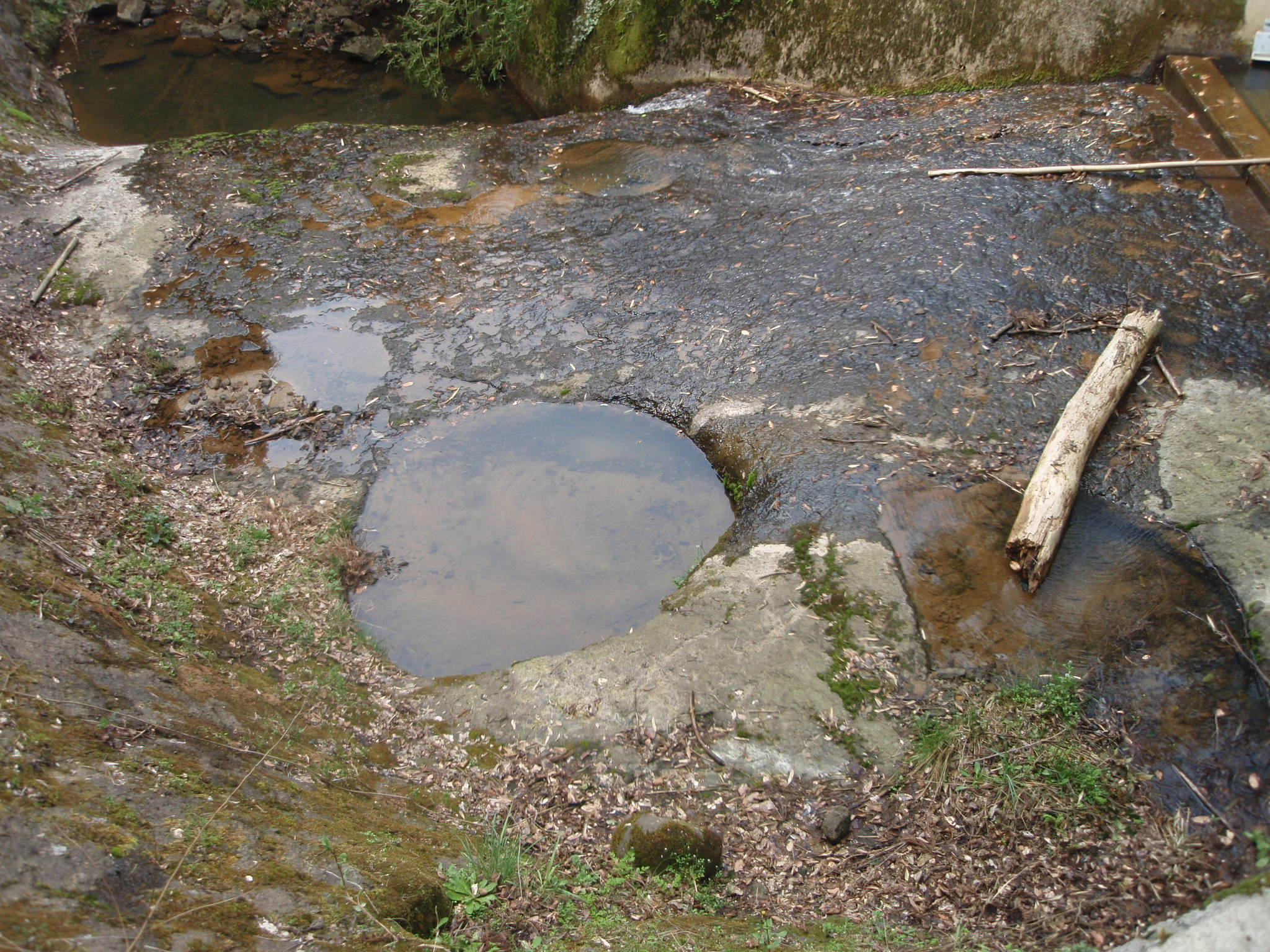 A pothole called "Iwatsubo" at Izumo city, Shimane prefecture